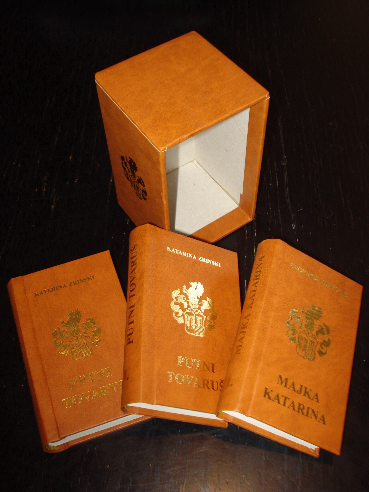 "Triptych Zriniana", three miniature books in a box, published by Matrix Croatica - Medjimurje Branch in Čakovec, Croatia (fan-shaped)